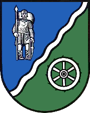 Coat of Arms of Lutter